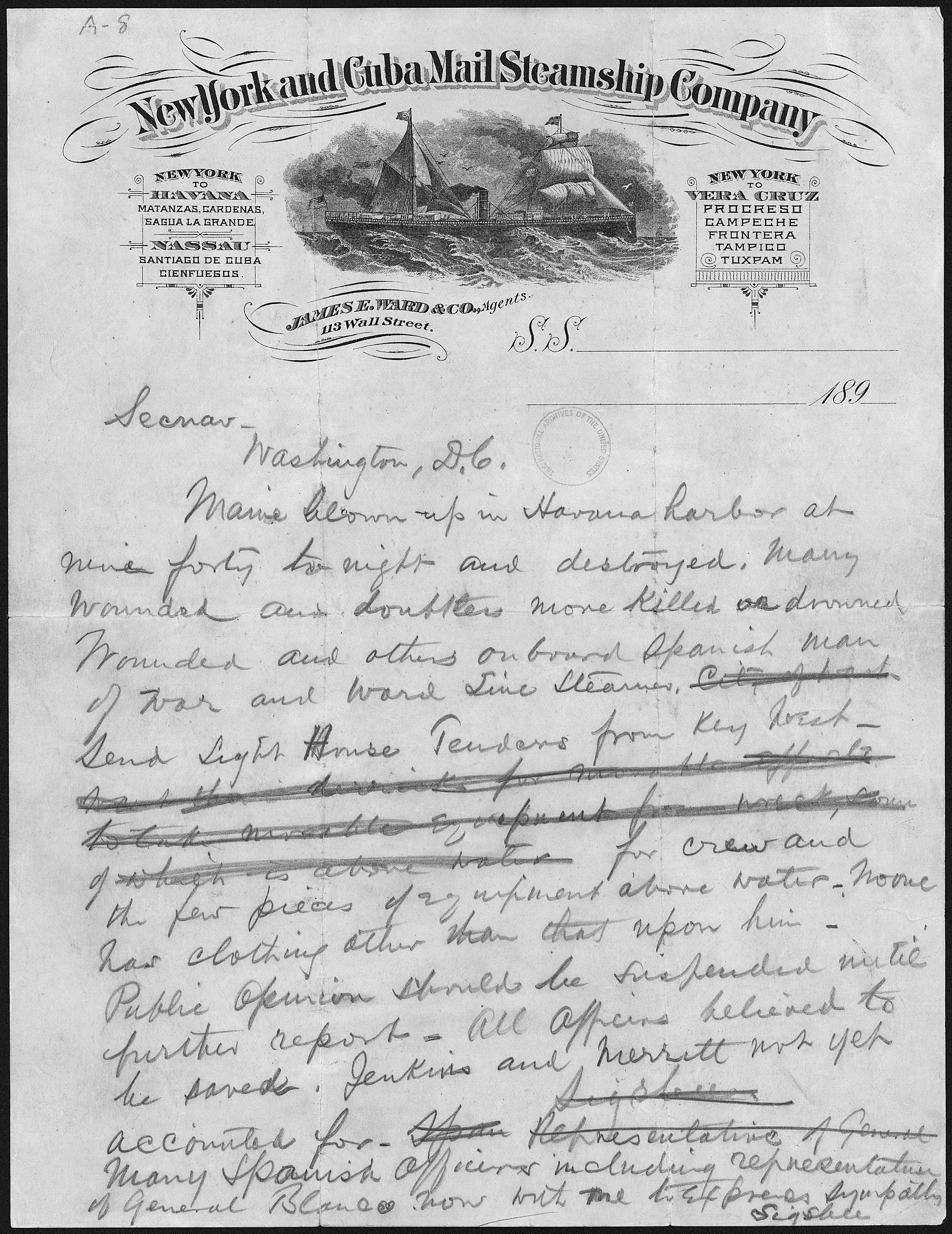 Scope and content: This telegram was written by Captain Charles D. Sigsbee regarding the sinking of the USS Maine.